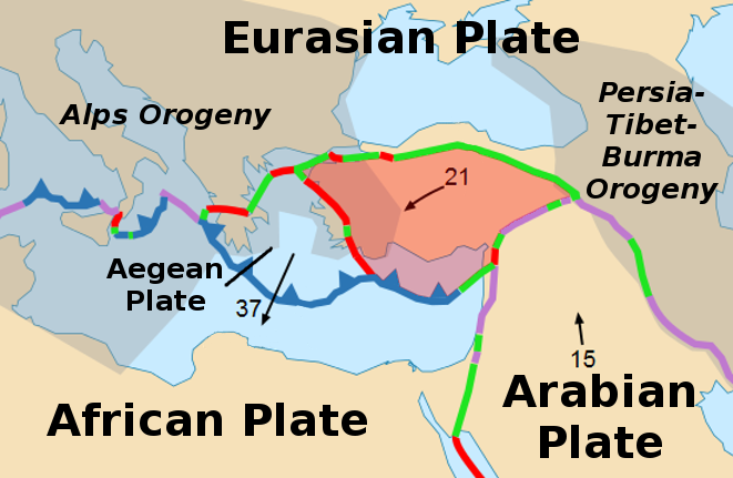 Maps of Anatolian Plate